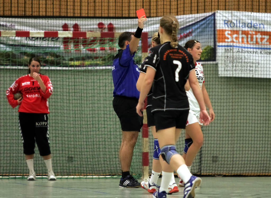 Red Card, shown by the referee during the handball game TSG Ober-Eschbach - HSG Bensheim/Auerbach, on October 29th 2006 in Ober-Eschbach (Germany).